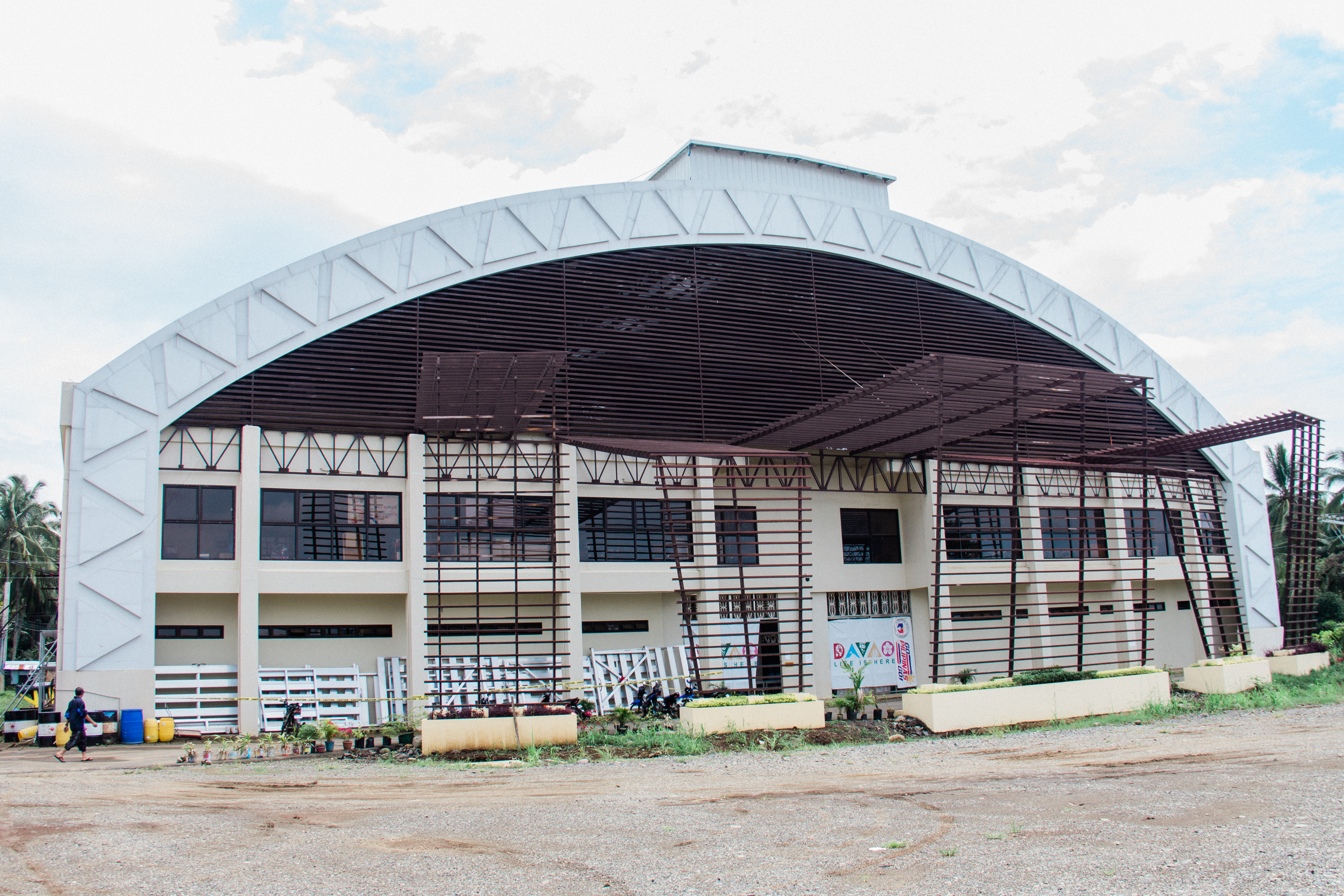 The completed gymnasium of the Davao City-UP Sports Complex